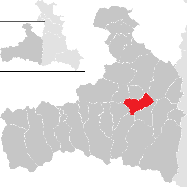 District Zell am See